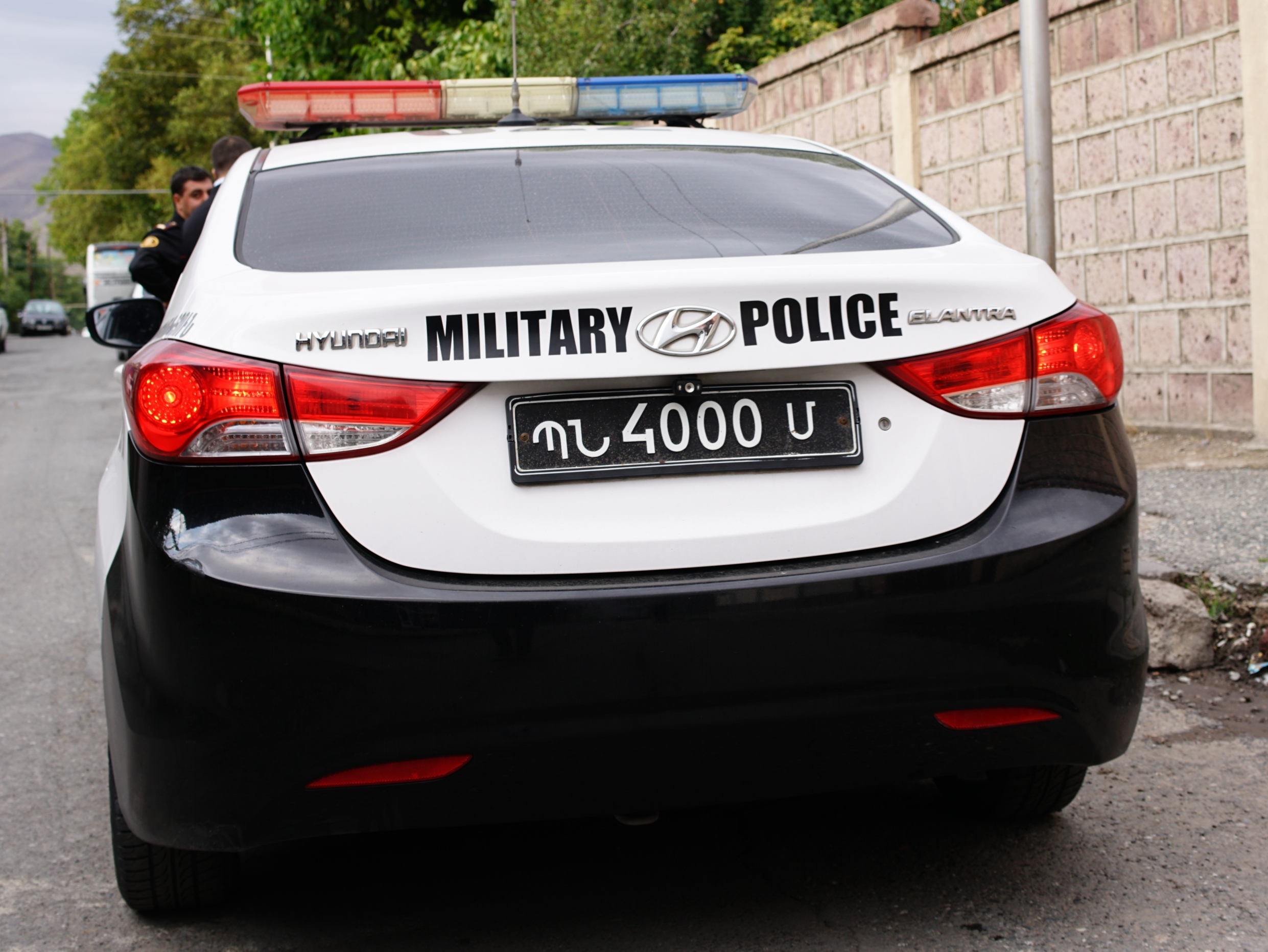 the white on black license plate of an Armenian Department of Defense (Military Police) vehicle